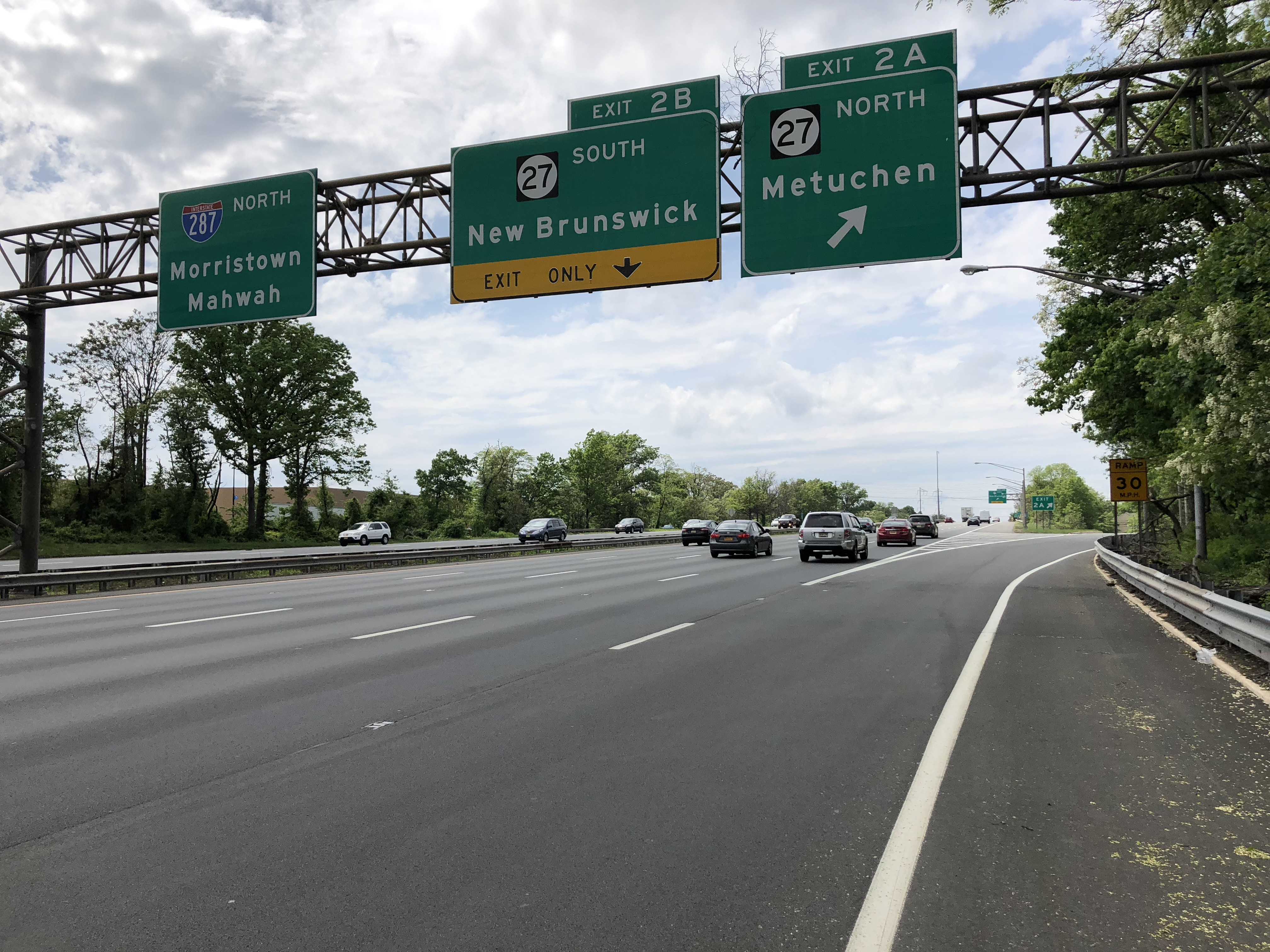 View north along Interstate 287 (Middlesex Freeway) at Exit 2A (New Jersey State Route 27 NORTH, Metuchen) in Metuchen, Middlesex County, New Jersey